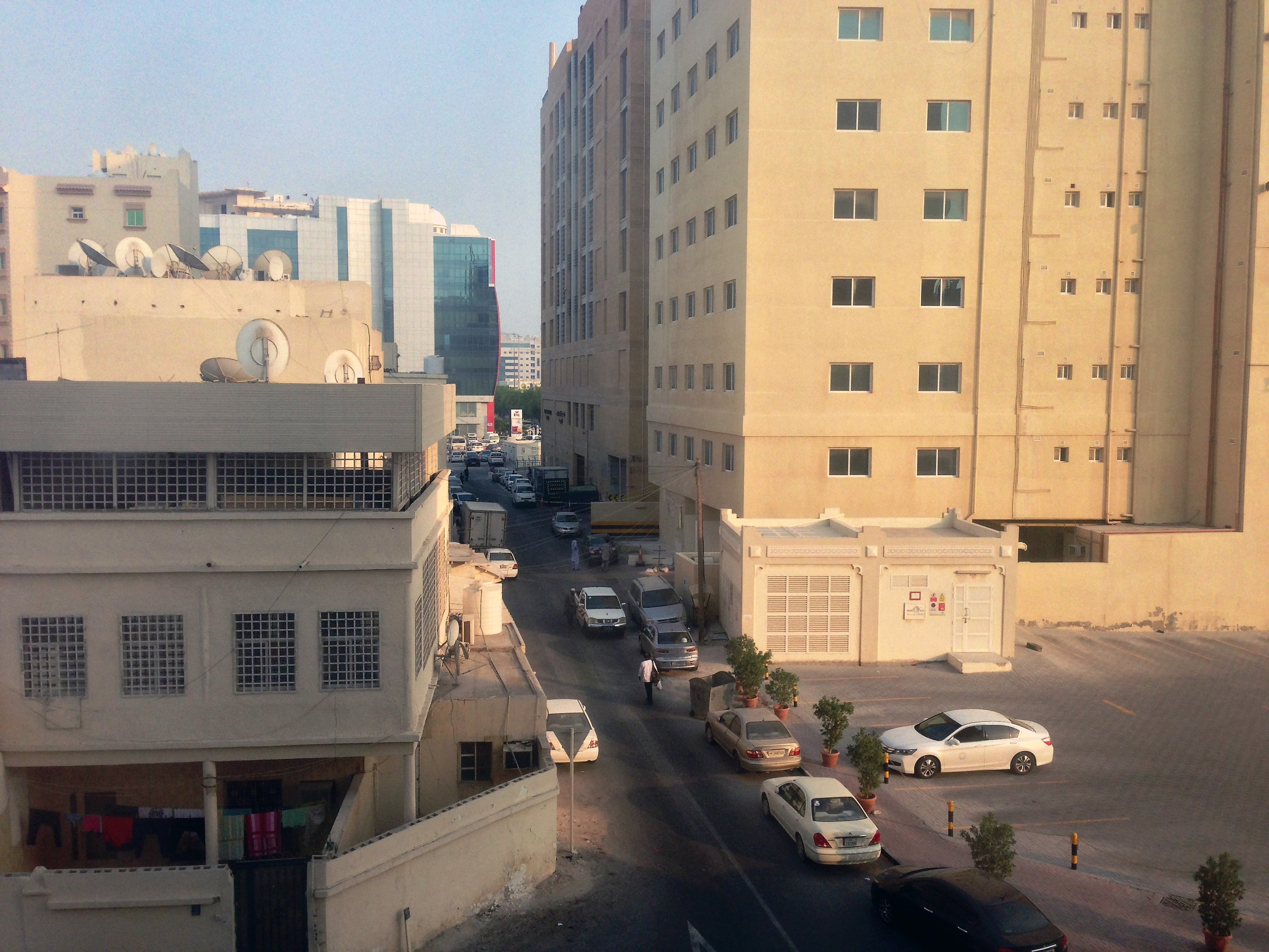 Residential area in Al Hilal district of Doha, Qatar.